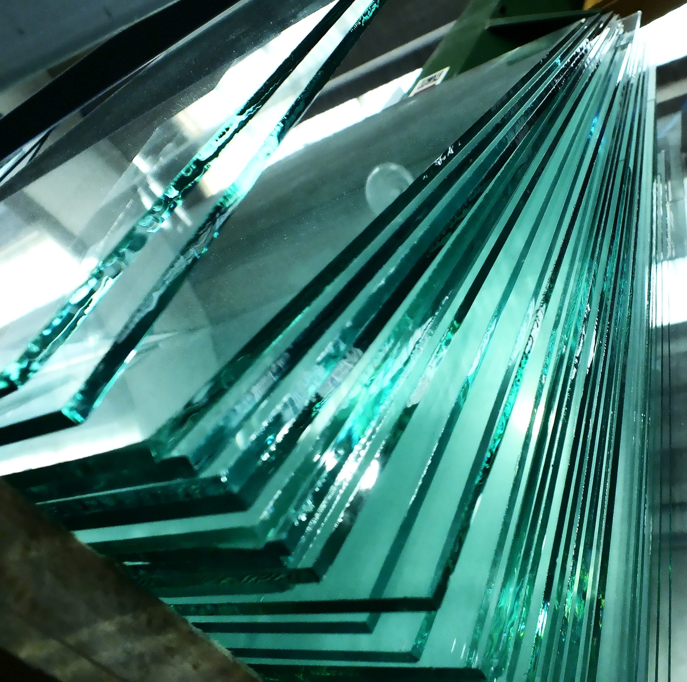 Glass plates